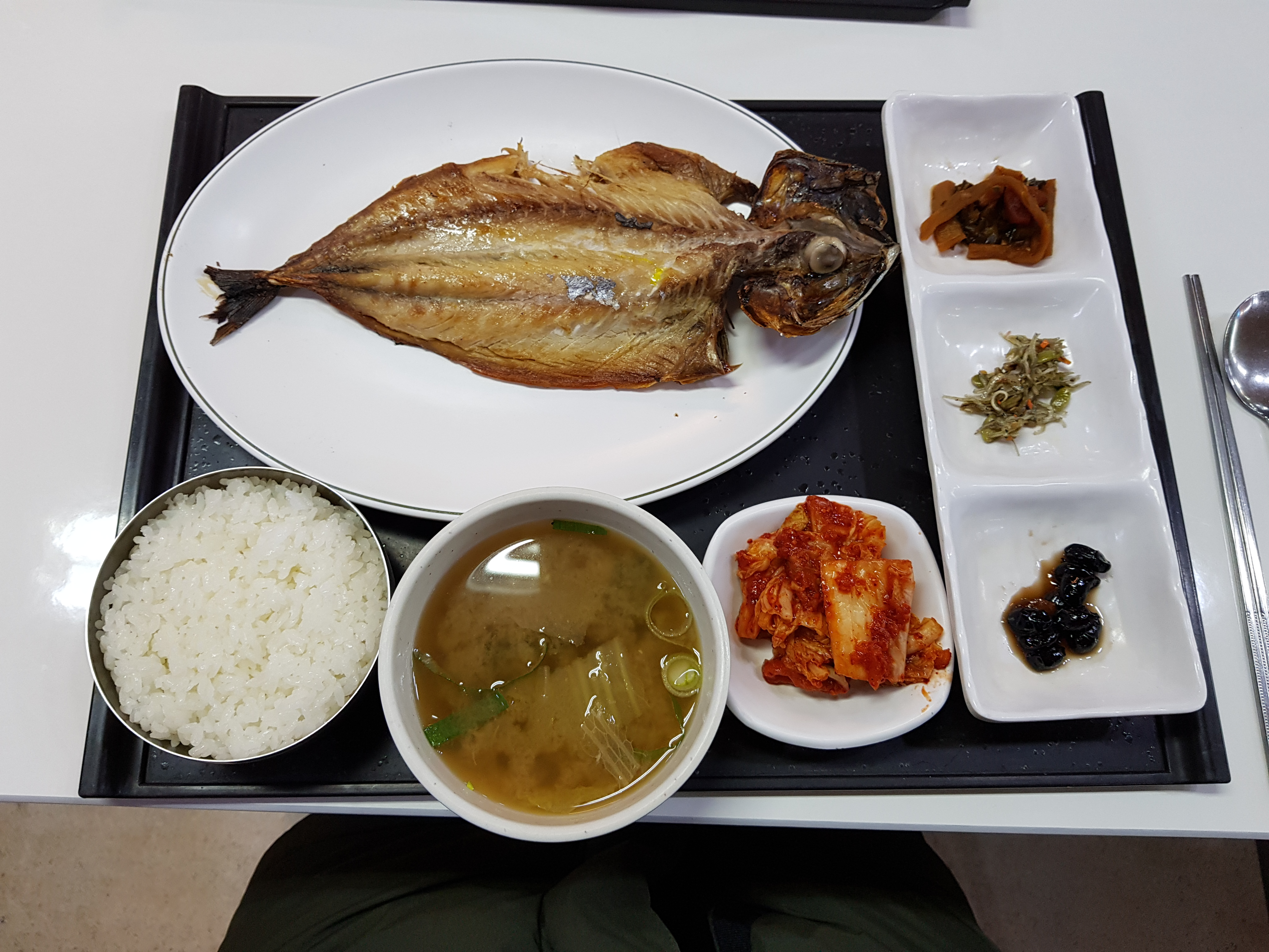 Andong Gangodunga at Andong Service Area (Busan)